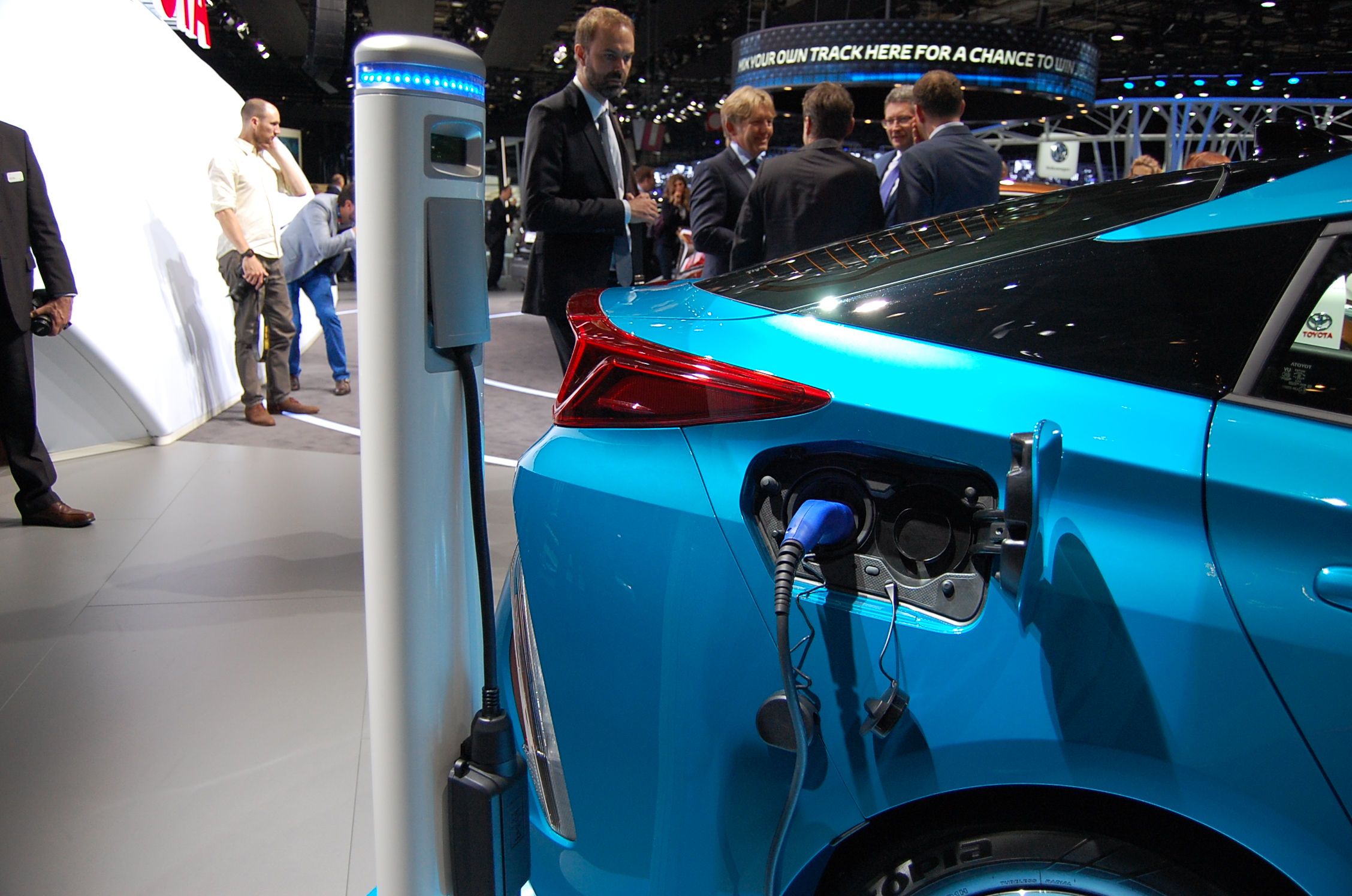 Toyota Prius Plug-in Hybrid (Prius Prime in North America) at the Paris Motor Show - September 2016